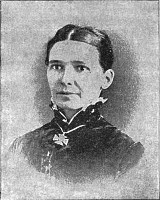 Miss Sigourney Trask, M.D.